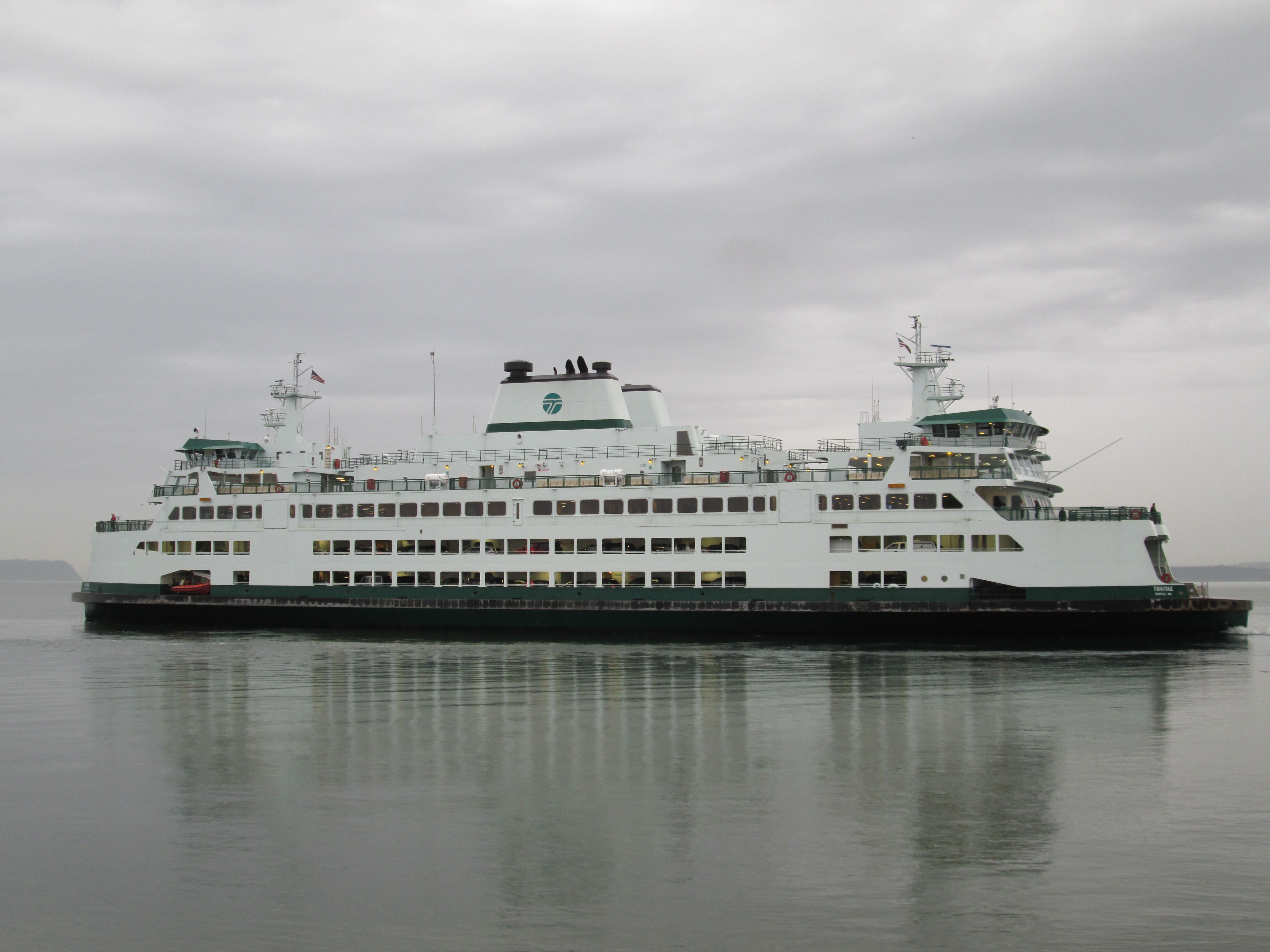 Taken from Lighthouse Park, the M/V Tokitae Departs Mukilteo for the 9:30 Sailing to Clinton. Taken on October 29, 2016.